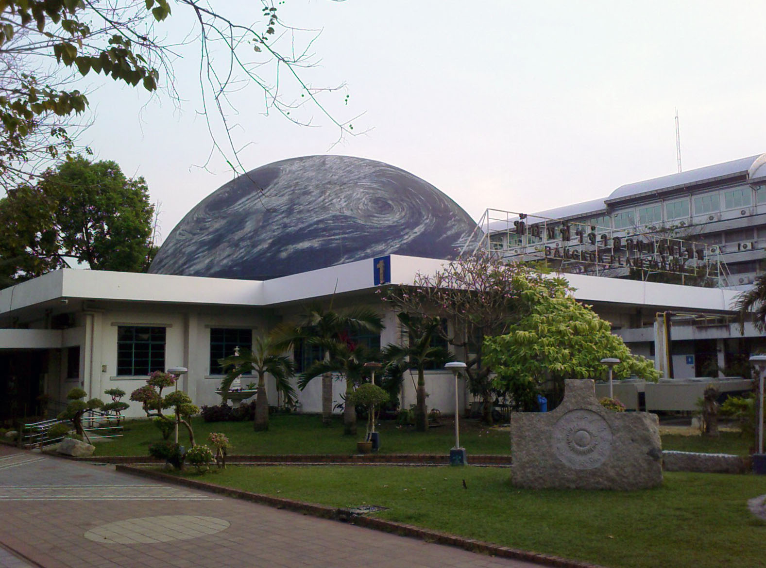 Main building of the Bangkok Planetarium